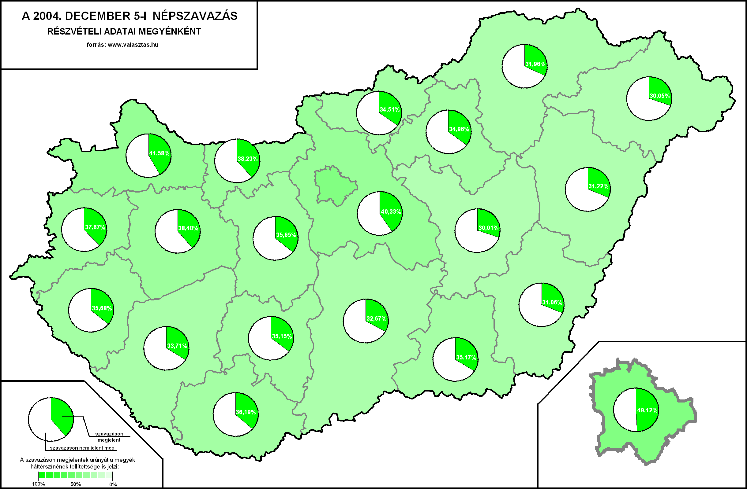 2004 hungarian referendum; Participation by county